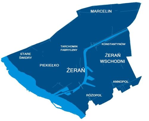 Żeran - part of Warsaw of Bialoleka District - in vision of MSI